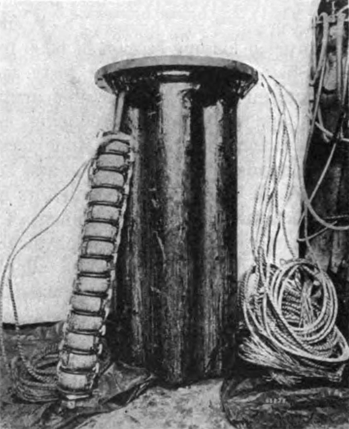 A loading coil for a 1922 AT&T long-distance telephone trunk cable between New York and Chicago. Loading coils prevent signal degradation on long distance lines and are still used in modern telephone systems. It consists of toroidal 0.175 H coils each attached to one of the circuits in the trunkline. 14 toroidal coils are strung on a spindle, shown leaning against the pot. Seven spindles fit in the pot, which is filled with oil. The pot will be mounted on a telephone pole. Loading coils are required at 6000 ft. intervals along the cable.